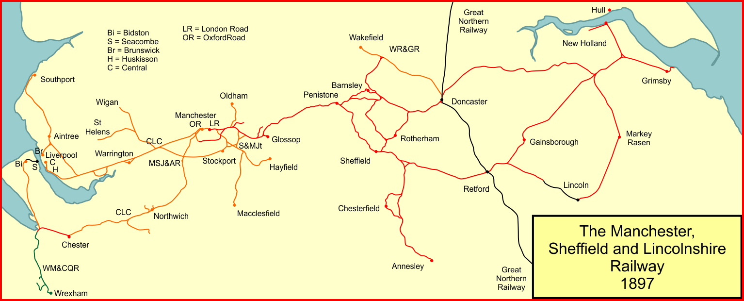 The English railway called the Manchester, Sheffield and Lincolnshire Railway changed its title at the beginning of 1897 (to the Great Central Railway). This is the network at the moment of that transition.